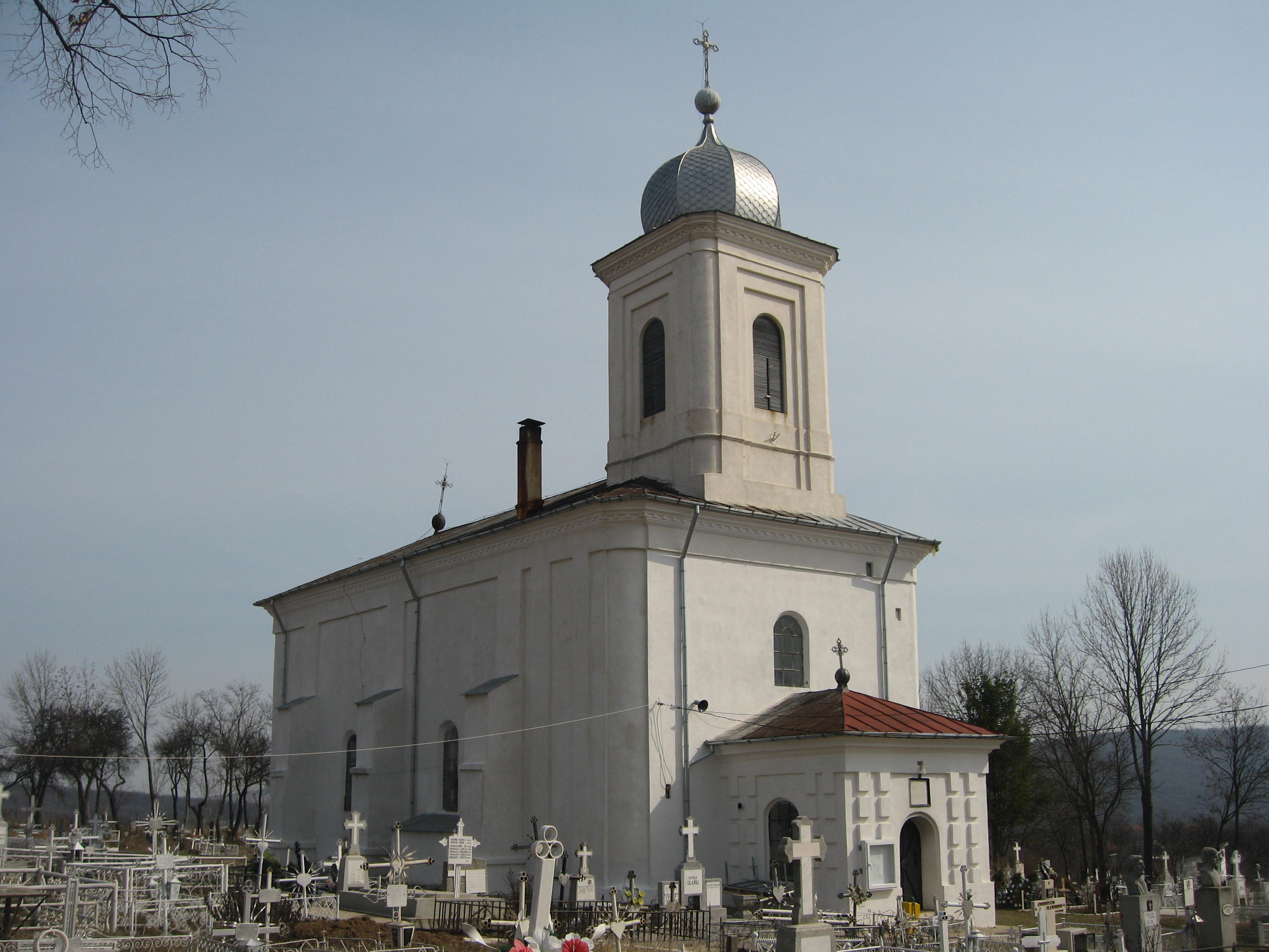 Biserica Sf. Nicolae din Poieni